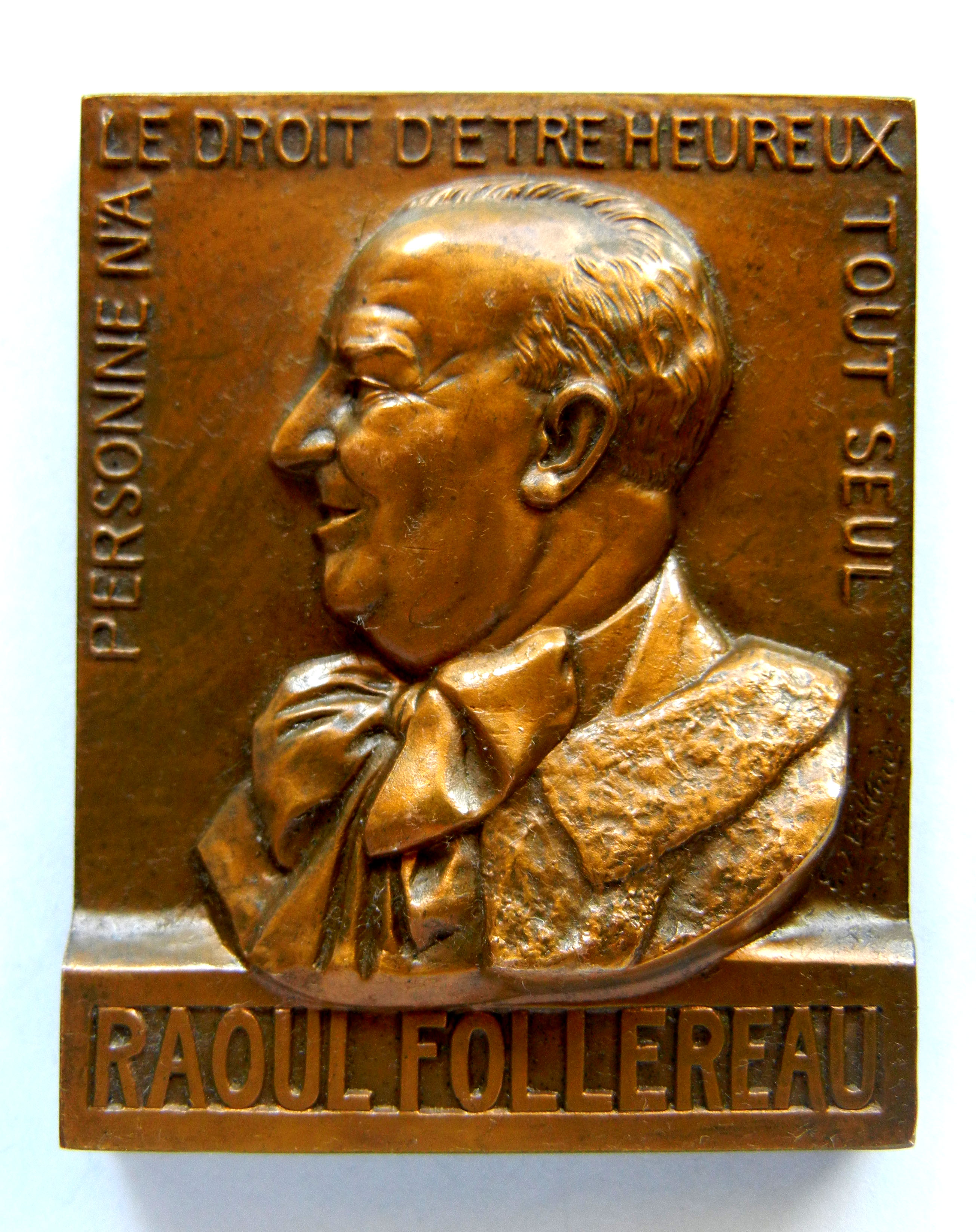 Raoul FOLLEREAU Medal (1903-1977), World Leprosy Day. Engraver E.J. BELLONI. recto